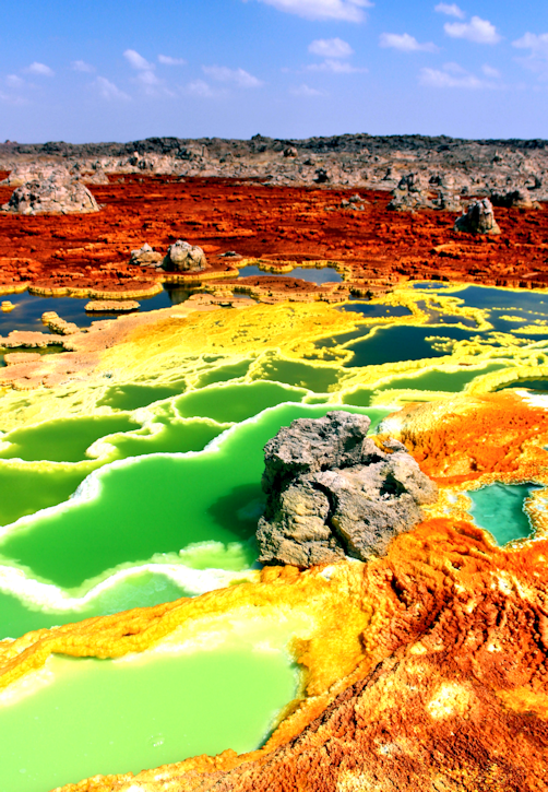 The colorful hydrothermal pools and terraces of Dallol, Ethiopia. Note how the colors of the site change from white and light green to yellow, orange and red owed to the inorganic iron oxidation.